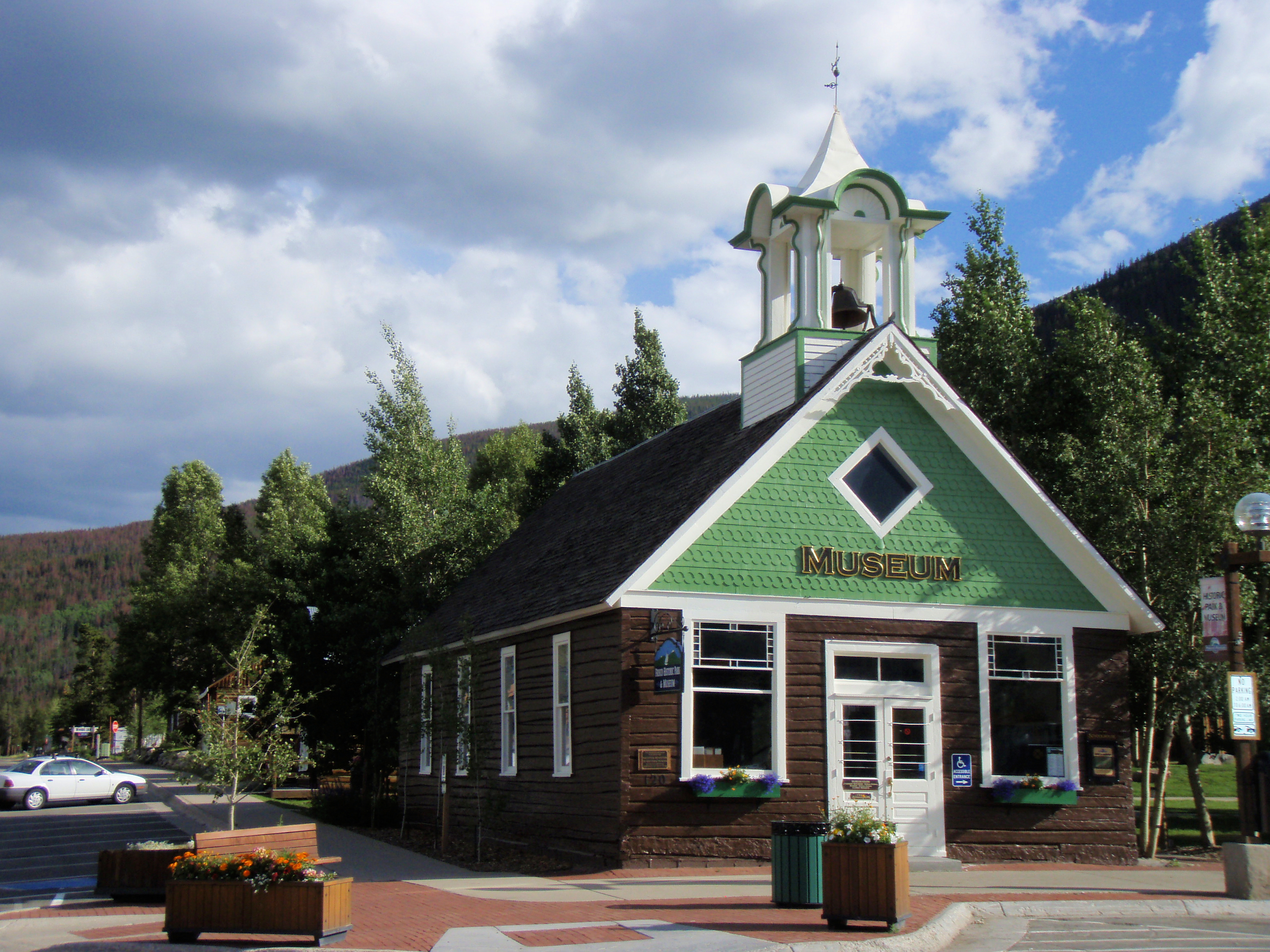 Frisco Schoolhouse in Frisco, Colorado, listed on the National Register of Historic Places.